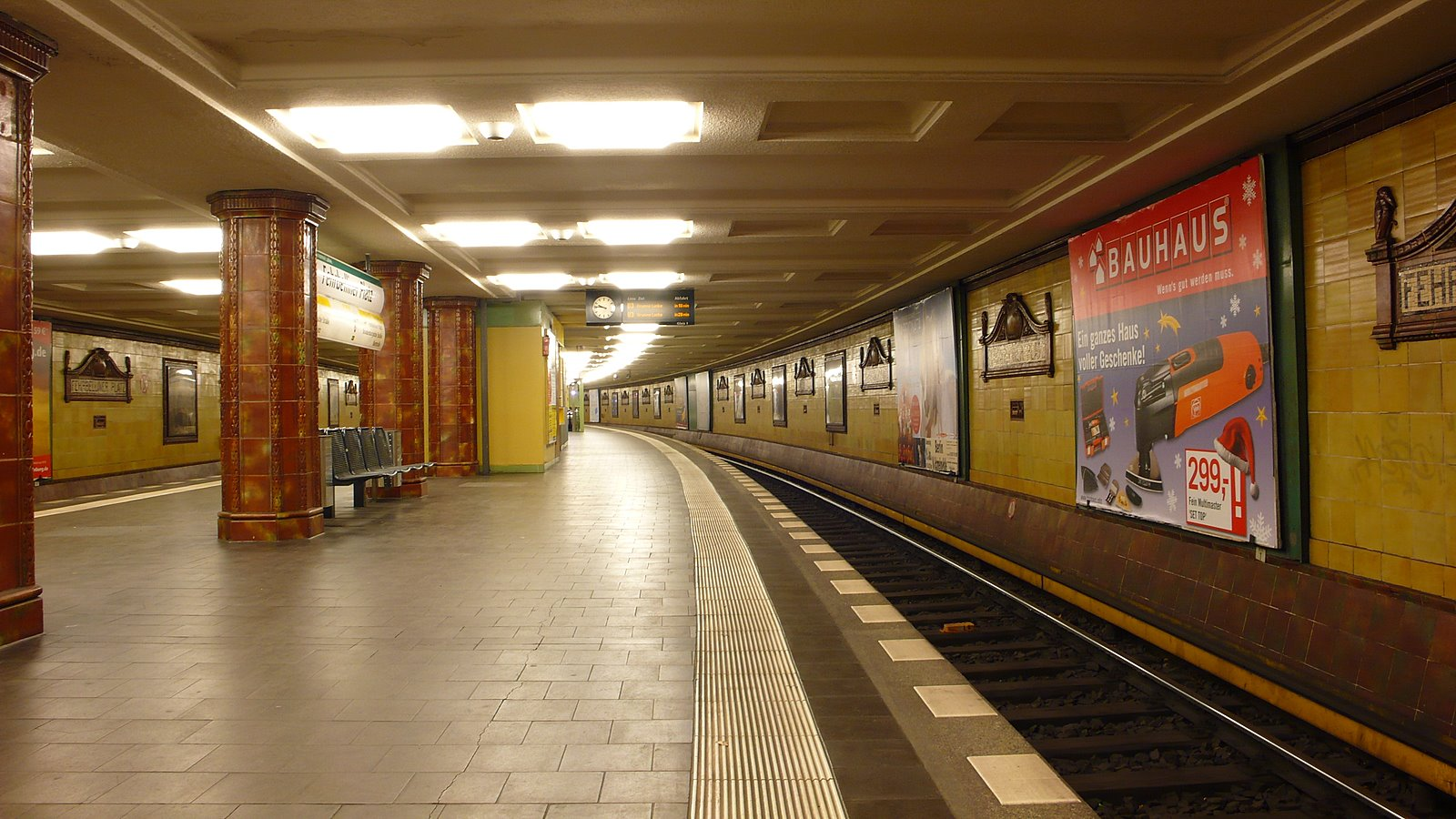 Subway Fehrbell Platz U3